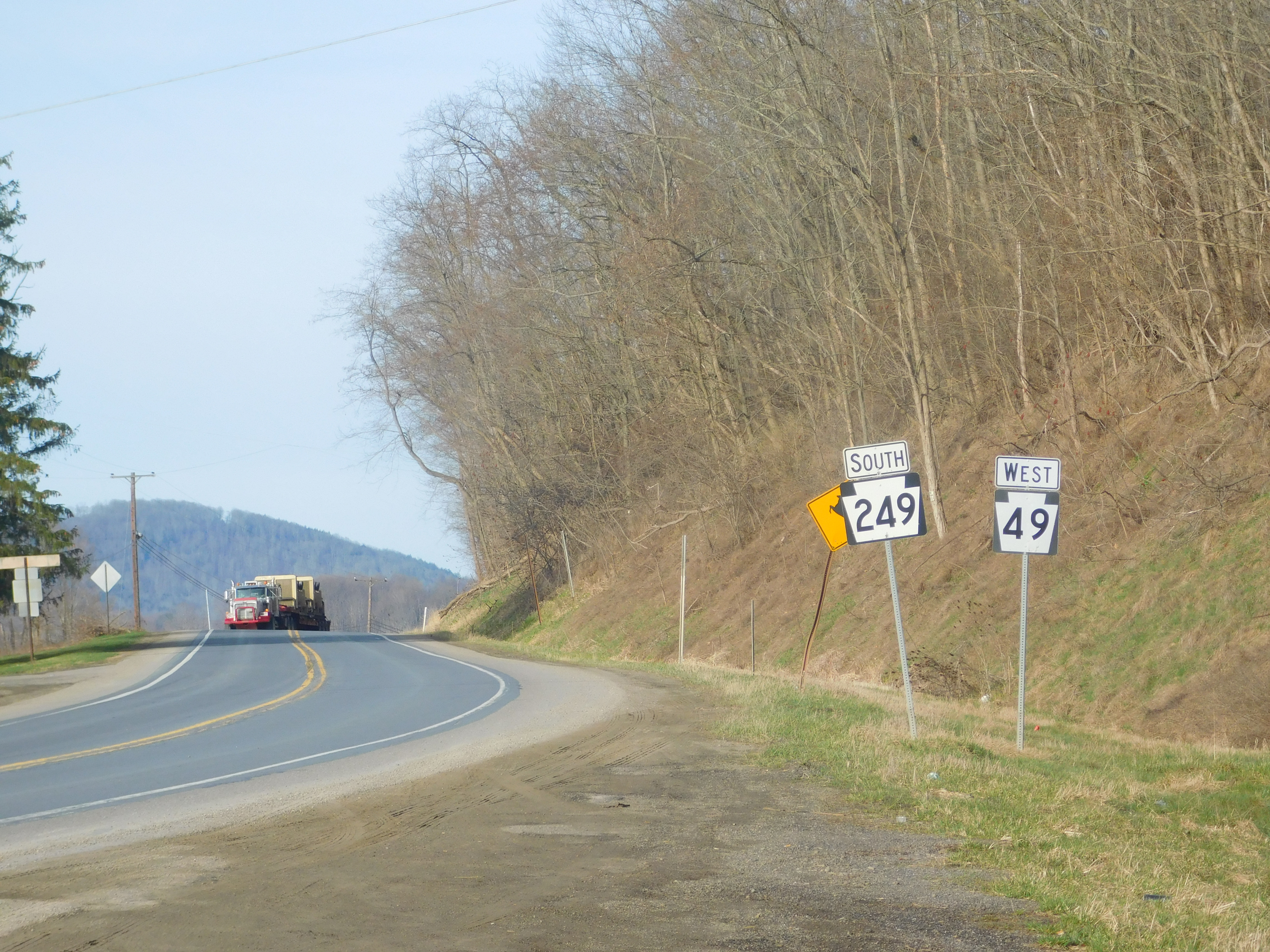 PA 249 and PA 49 in Knoxville, Pennsylvania.